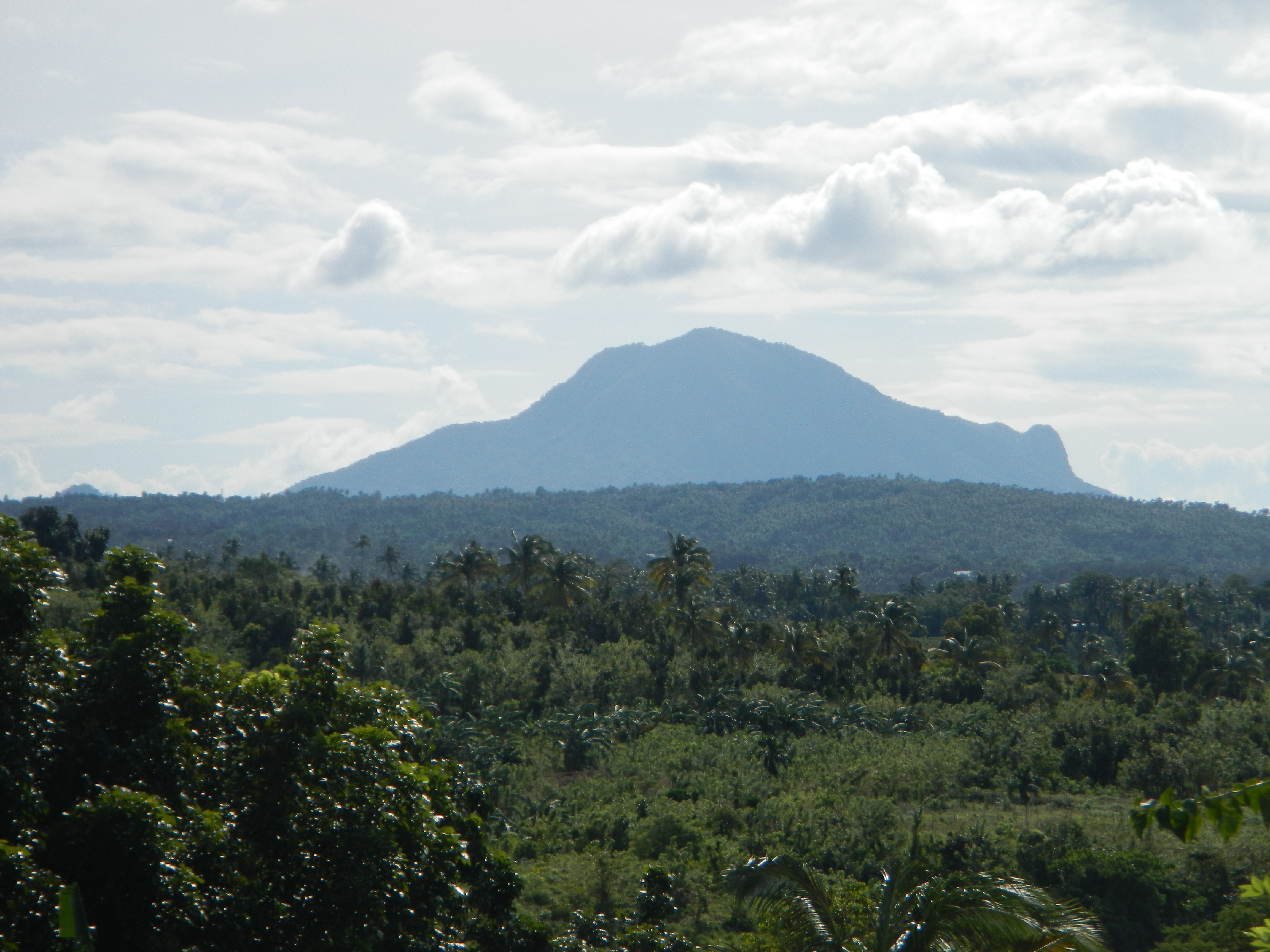 Upload Wizard photos of -- (General description, 3-dimension angle by angle photography of this town, church & landmarks) -- Marian Orchard of Balete at Barangay Malabanan, Balete, Batangas [1] - well known for its location view of Taal Lake,[2] providing a panoramic view of the Taal Volcano[3] - a landmark attraction, cultural heritage site, a pilgrimage site - Marian Orchard in Barangay Malabanan with a view of Mount Macolod or Mount Maculot, [4] [5] near and adjacent Lipa City - the Sacred Heart Tower, a replica of Brazil’s Christ the Redeemer, the view from the tower - of Taal Volcano, the Station of the Cross , Sto Niño Chapel, Wishing banga with ornamental plants[6] via Levitown, at Barangay Maraoy of Lipa City, to pass by Barangay Bulacnin [7] and then, the Balete Welcome Arch at Malabanan Brgy. Proper village, Coordinates: 14°0'43"N 121°7'30"E [8] [9] Marian Orchard & Hermitage of Our Mother - Marian Orchard is a Catholic-themed park built on a 5-hectare land surrounded with trees and plants of various kinds features a prayer garden, a chapel, an observation tower, fountains and shrines of various saints with observation tower of Christ the Redeemer statue, "The Ruins", Garden of Saints, Saint Joseph Shrine, Mama Mary Shrine, path leading to the garden of saints, entrance to the Prayer Garden fruit-bearing trees/plants at Marian Orchard - papaya, cacao, rambutan, chico, etc.).[10] Balete [11].[12] - Balete is politically subdivided into 13 barangays [13] Coordinates: 14°1'4"N 121°5'41"E [14] Poblacion Coordinates: 14°1'9"N 121°5'44"E [15] geographical location: Batangas, Region 4, Philippines, Asia geographical coordinates: 14° 1' 7" North, 121° 5' 54" East;[16]) - going to Town Proper, Centro, downtown.